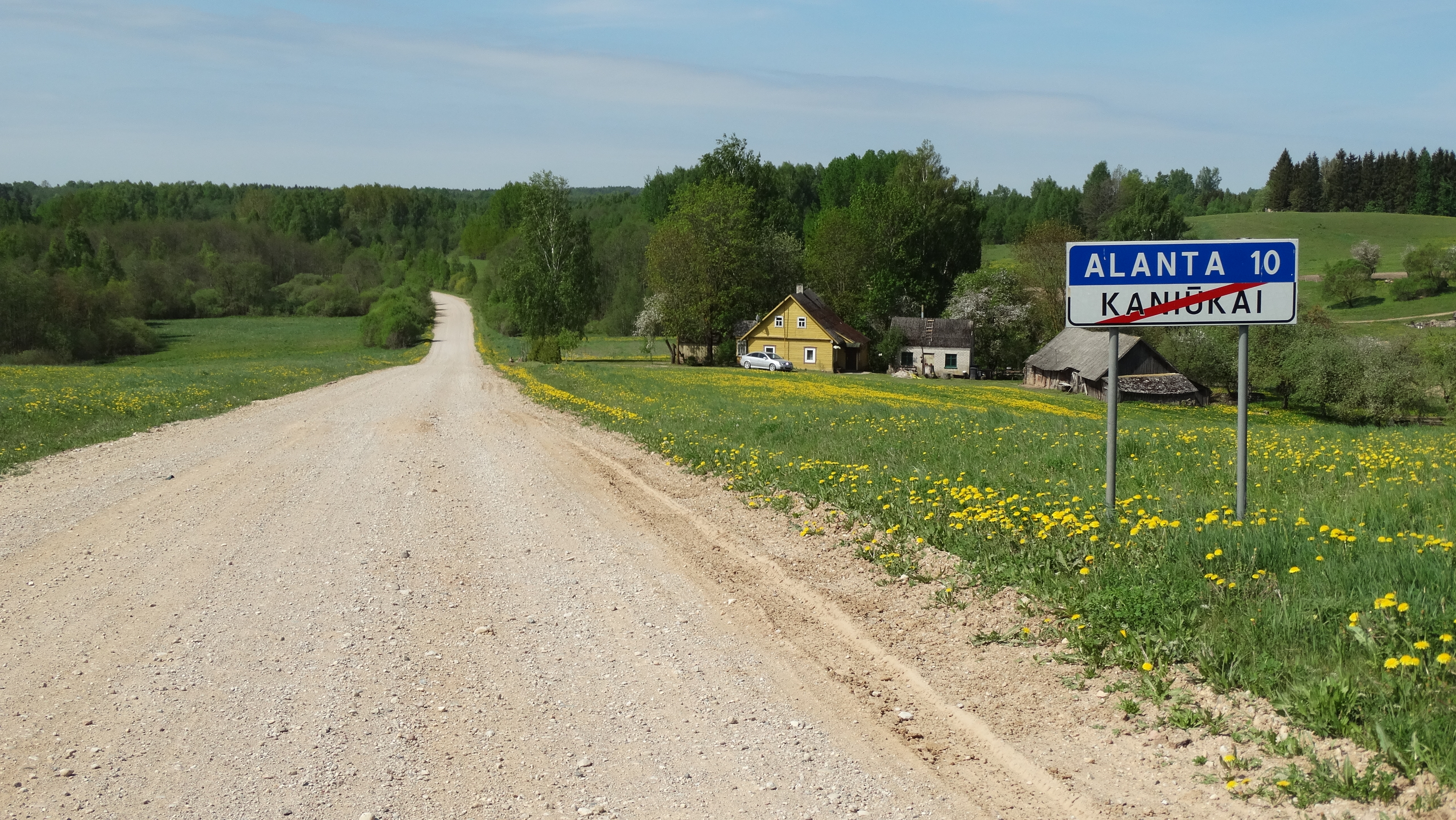 Kaniūkai, Molėtai District, Lithuania